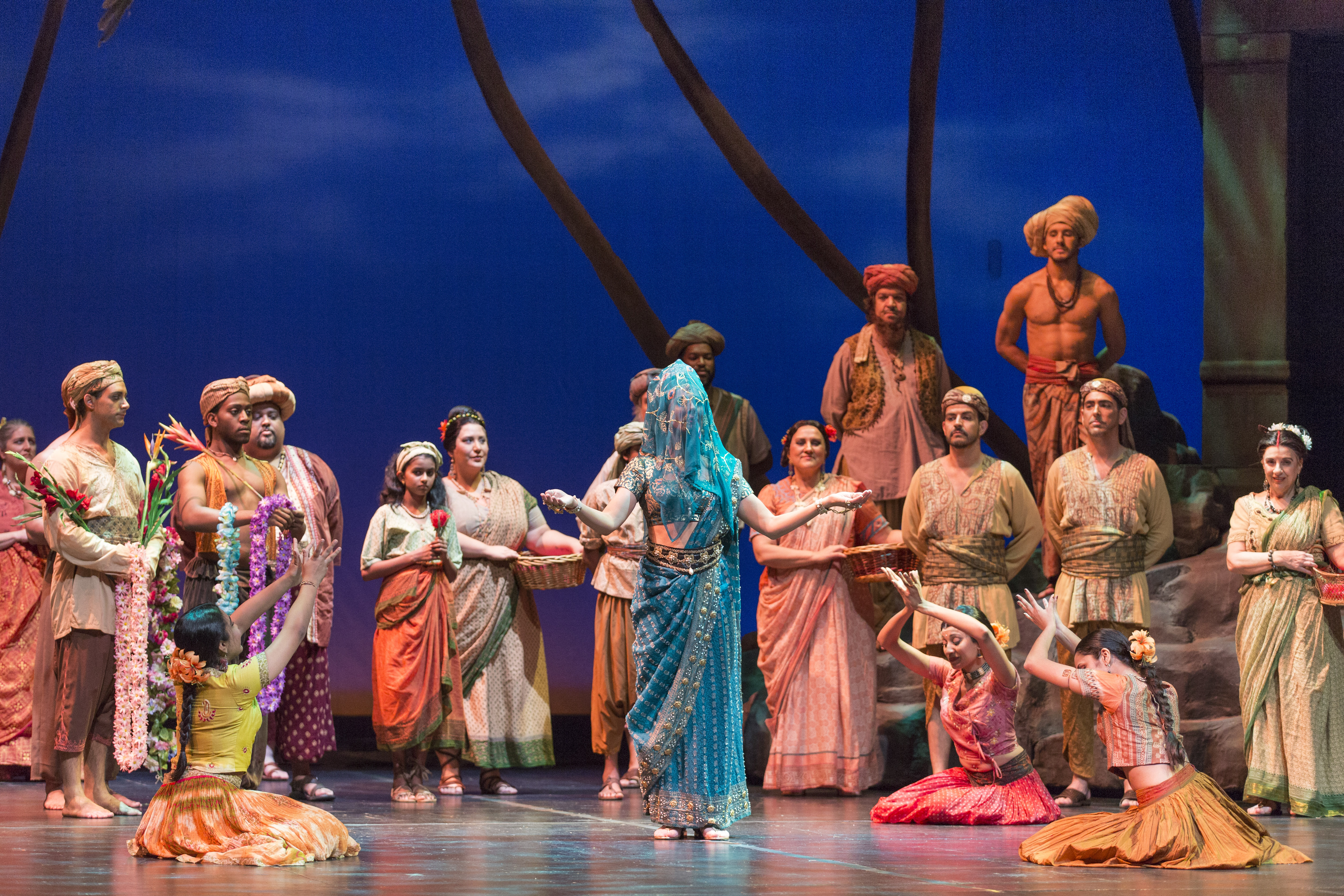 The Florida Grand Opera production of The Pearl Fishers----Photo by Rod Millington First dress rehearsal